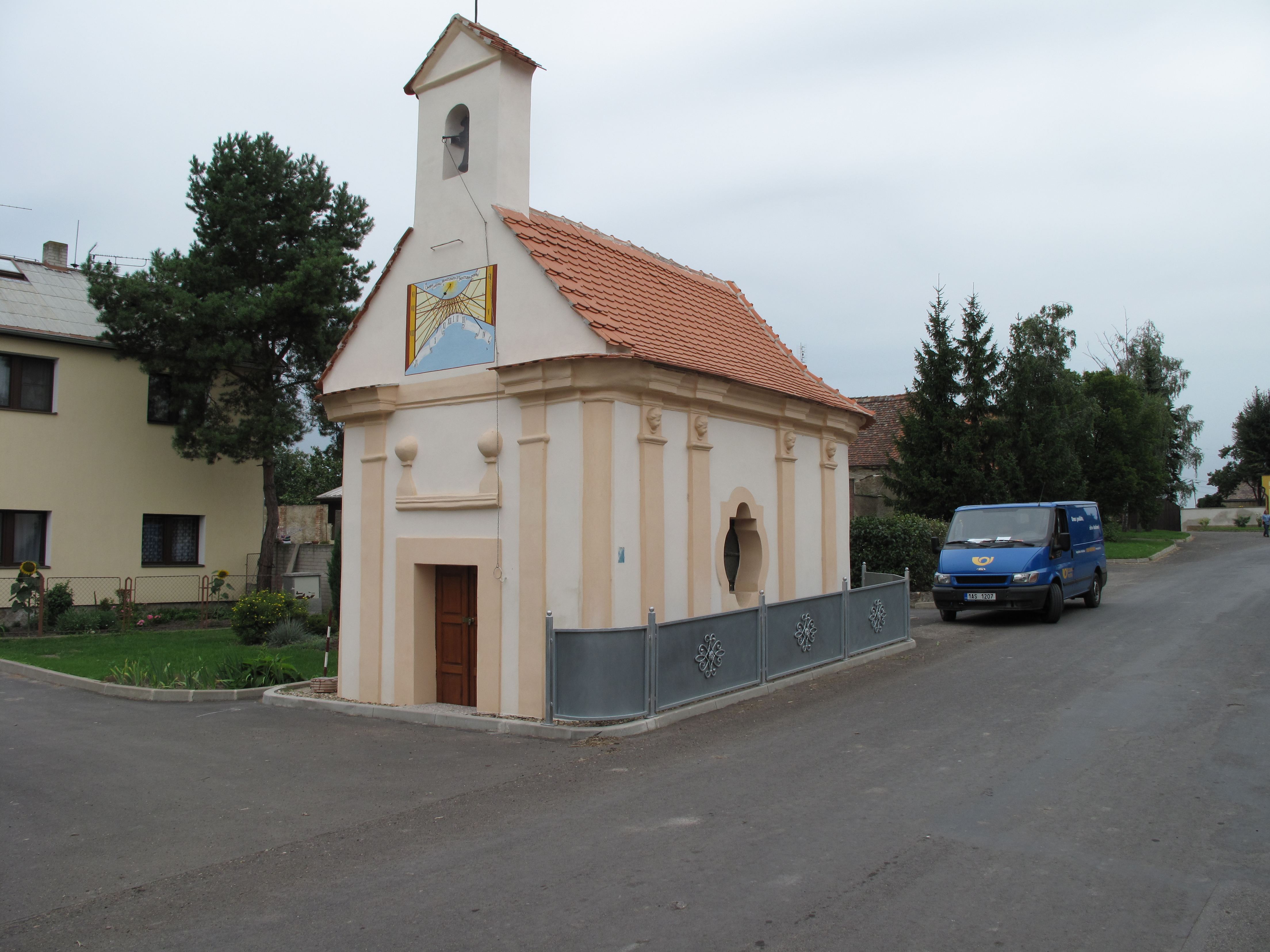 Chapel in Úpohlavy village, Litoměřice District, Czech Republic.